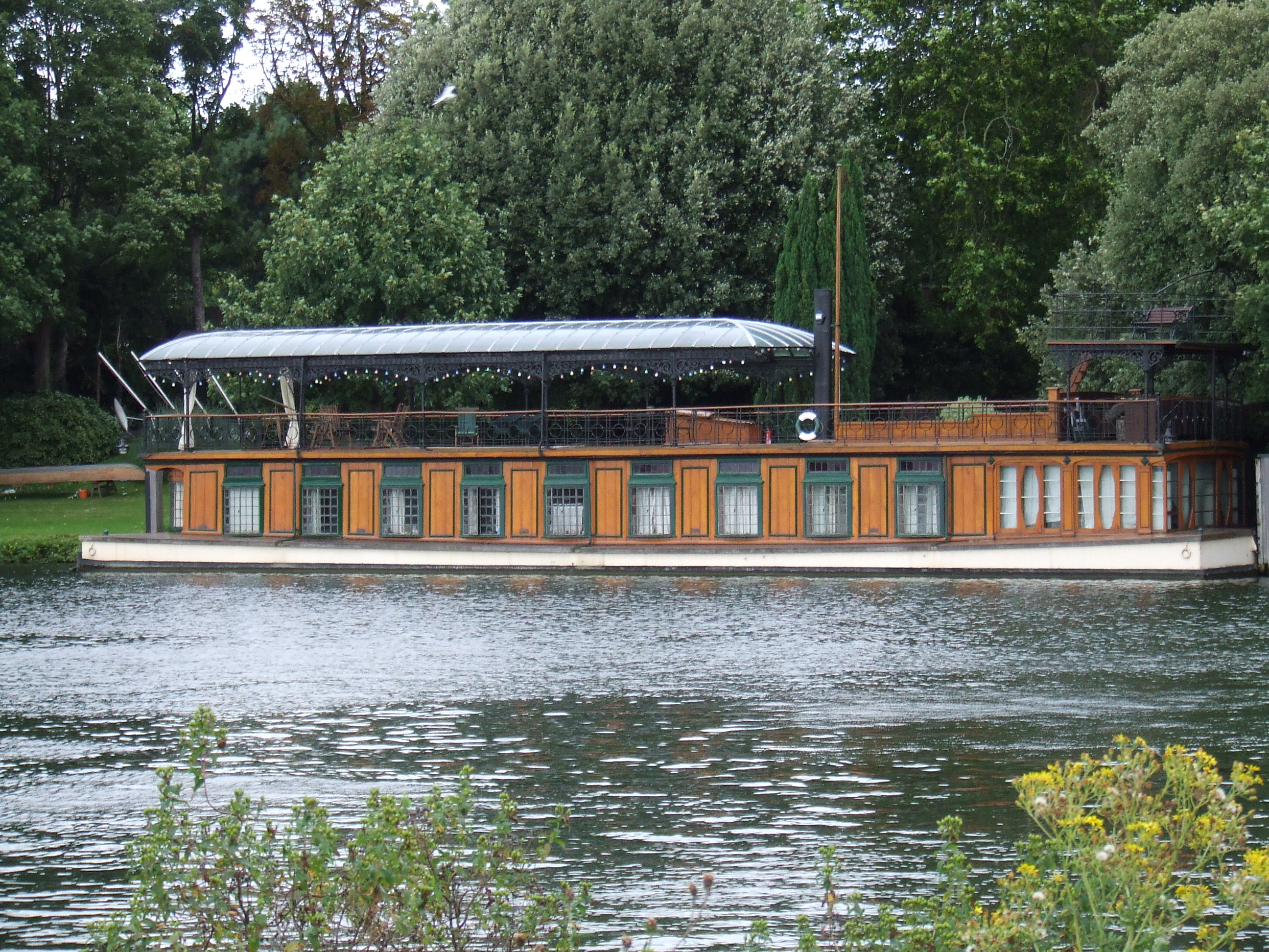 Astoria Houseboat on Thames, Recording Studio